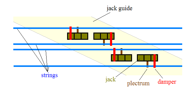 False-color diagram of the arrangement of strings and jacks in a bentside spinet. Hand-drawn by User:Opus33 using Microsoft Paint, following an original by Stewart Pollens.